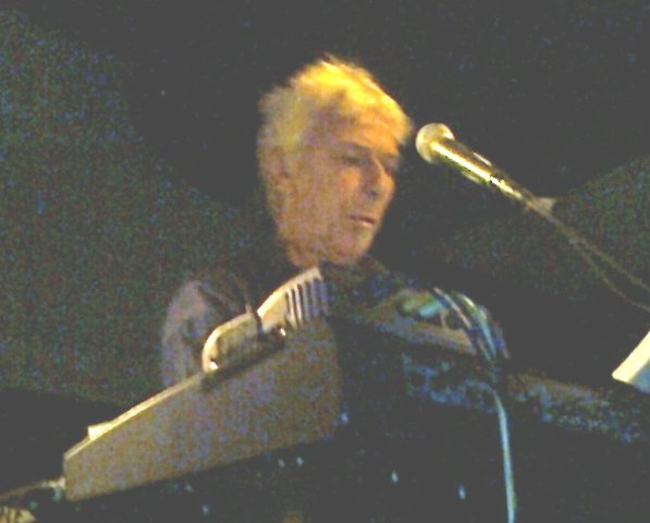 John Cale performing in Tel Aviv, Israel